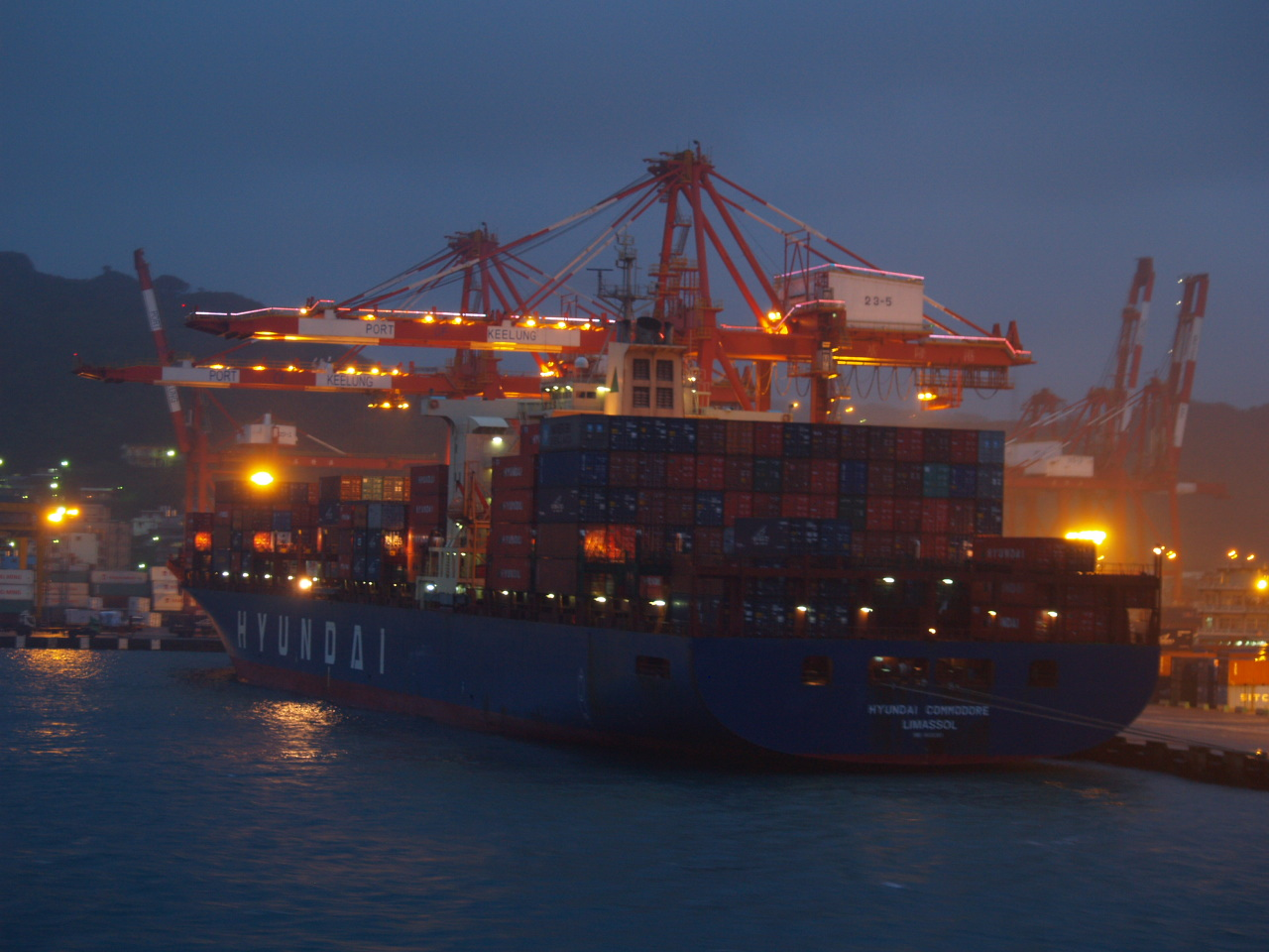 The following is the author's description of the photograph quoted directly from the photograph's Flickr page. "IMO number : 9035981 Name of ship : HYUNDAI COMMODORE Call Sign : C4SD2 Gross tonnage : 51836 Type of ship : Container Ship Year of build : 1992 Flag : Cyprus Status of ship : In Service "